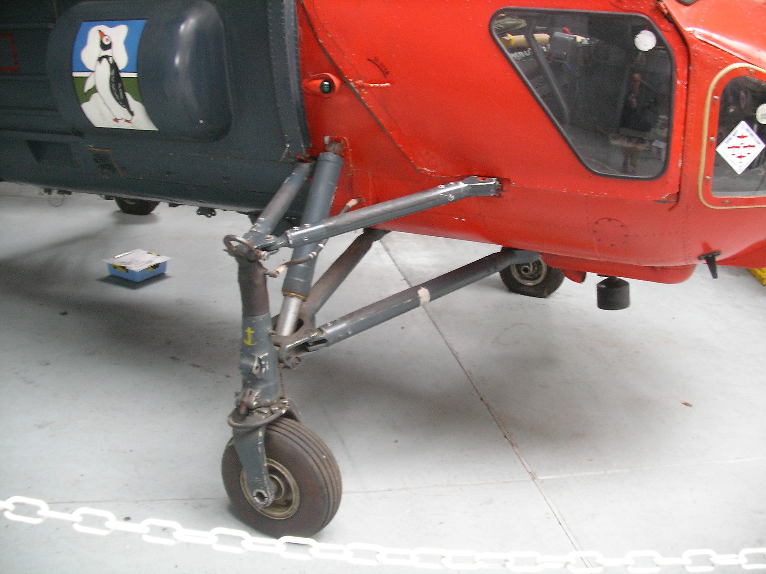 Front landing gear of Wasp helicopter. Nerdy, but unusual and interesting to aircraft fans and rarely properly shown